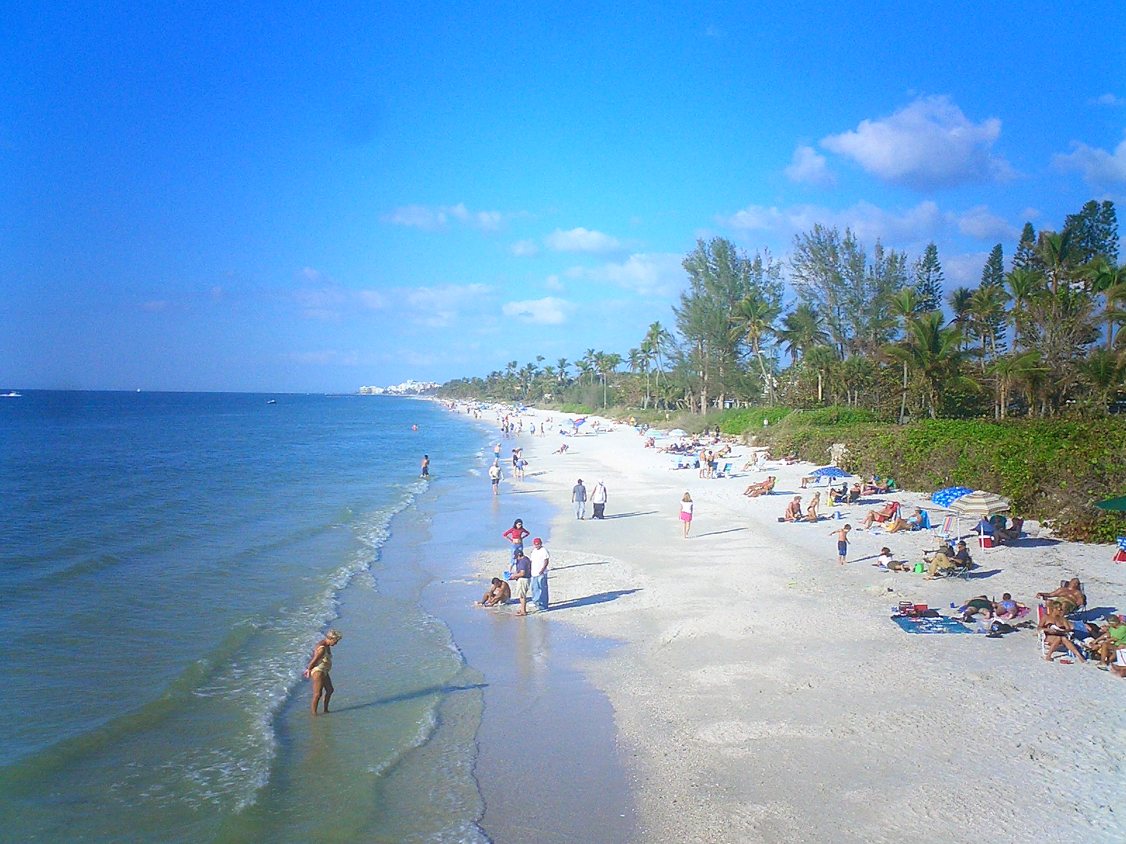 Naples, Florida beach taken from pier.